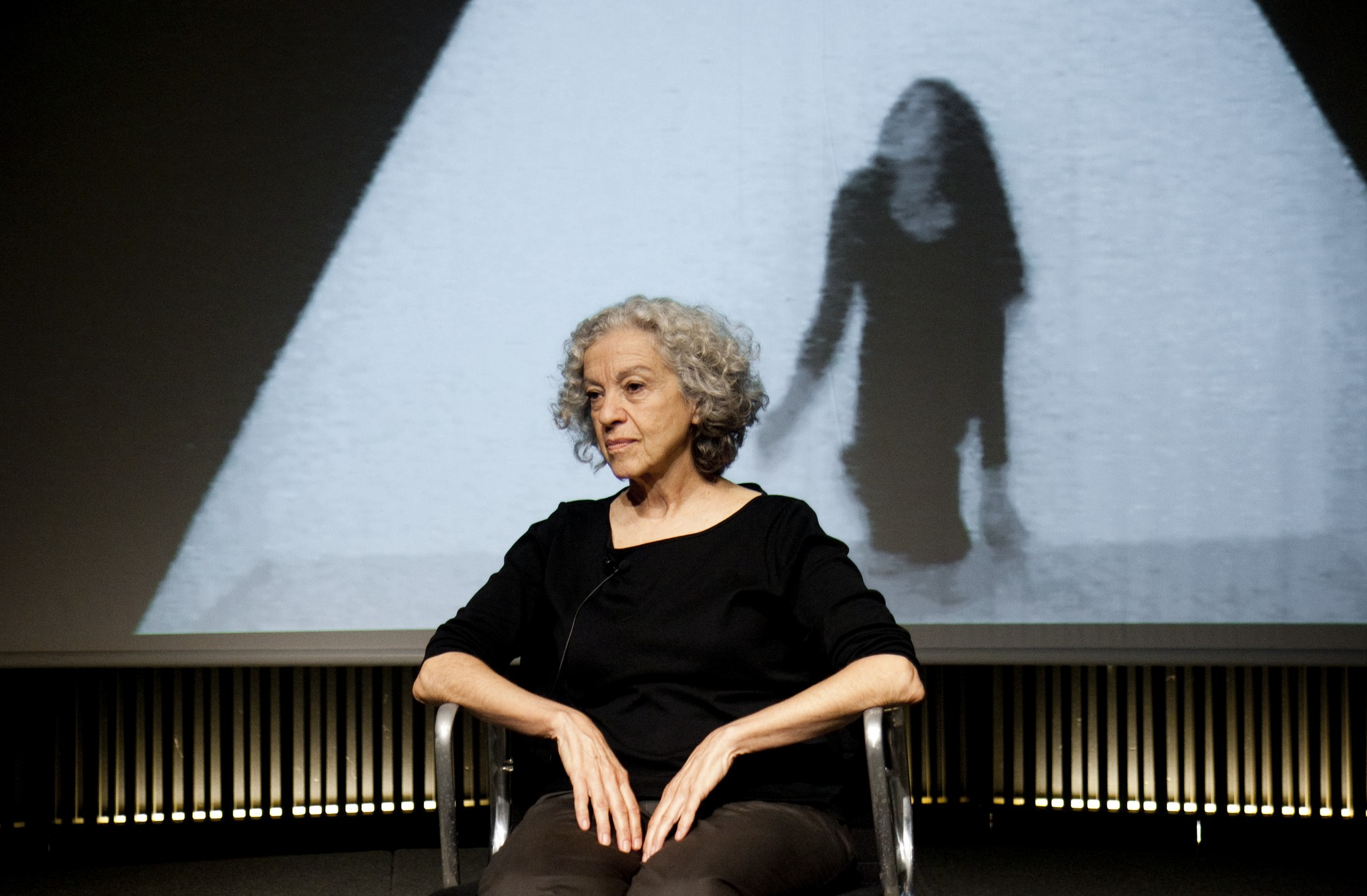 Àngels Ribé at MACBA Barcelona.